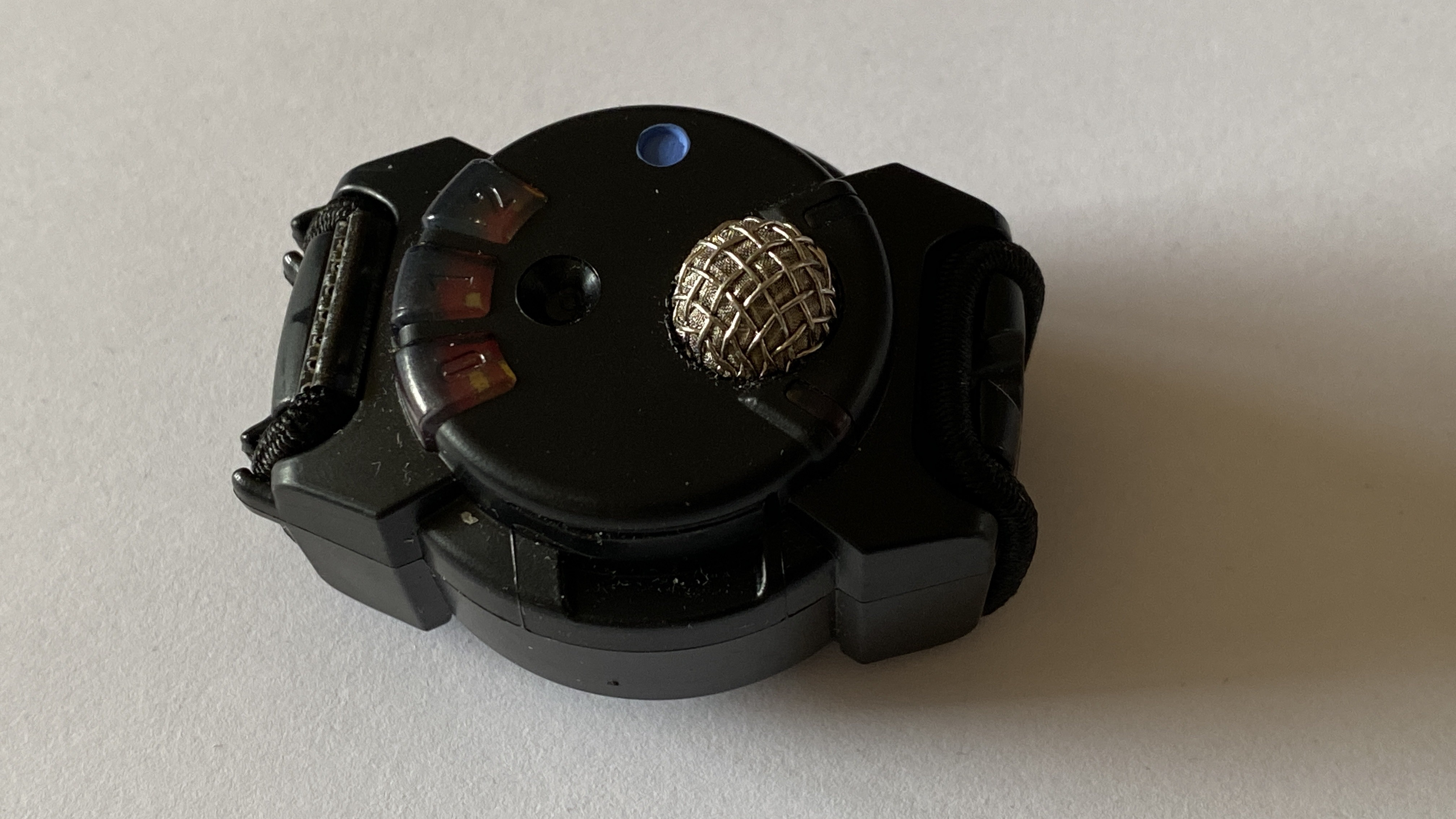 Blast Sensor (Blast Gauge) from Blackbox Biometrics (USA)